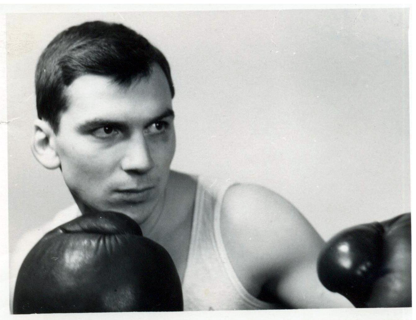 Leonid Khabarov, an amateur boxer and a winner of the local championship.